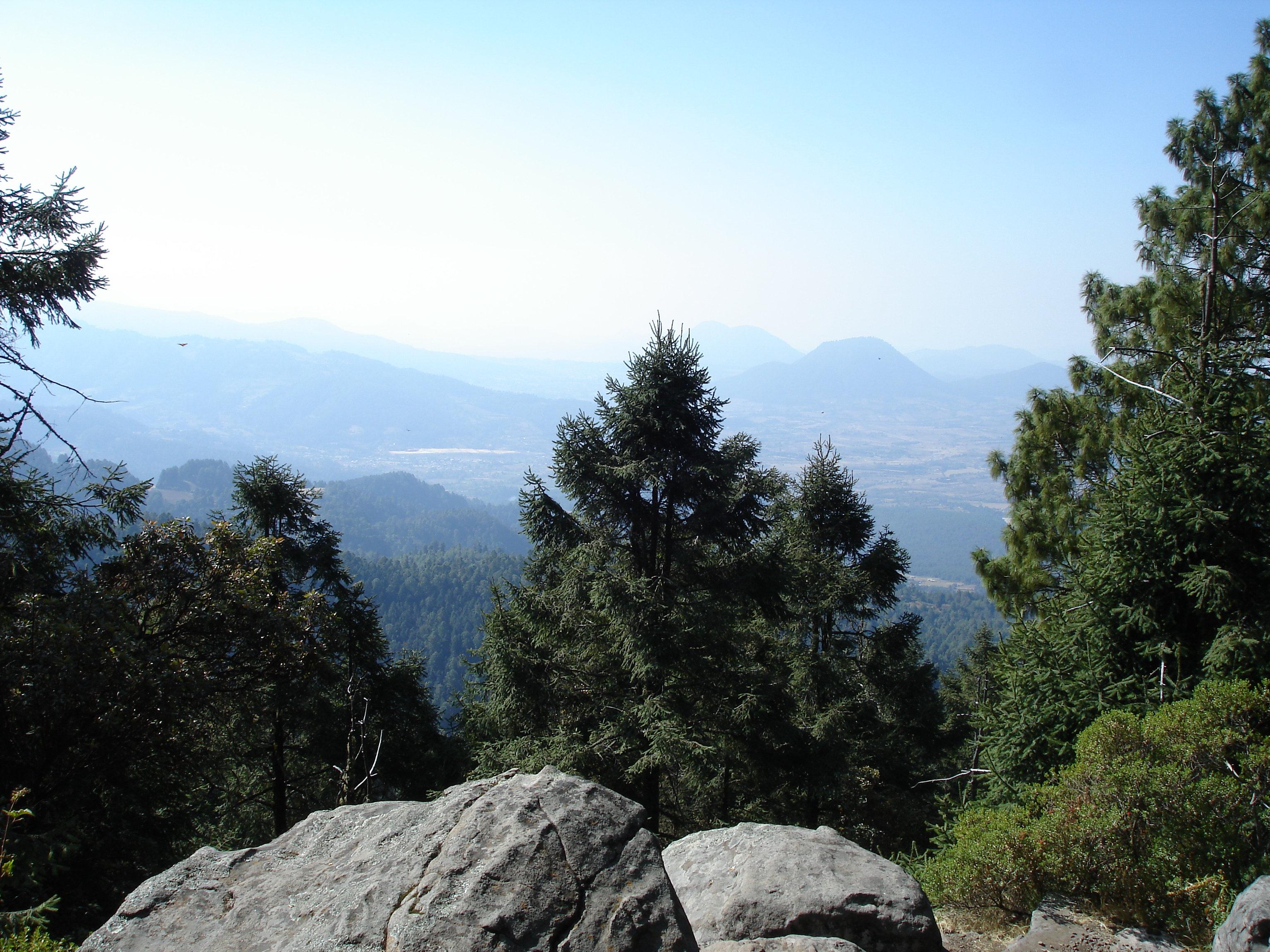 Sacred Fir Abies religiosa forest with Montezuma Pine Pinus montezumae, Chincua Monarch Sanctuary, Angangueo, Michoacán, Mexico